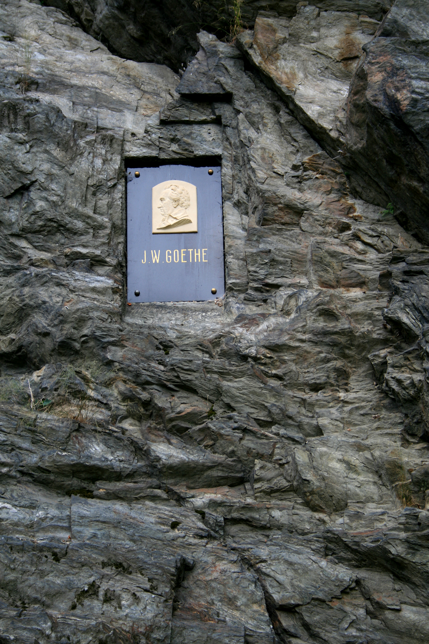 Plague of J. W. Goethe in Cheb west of Czech Republic